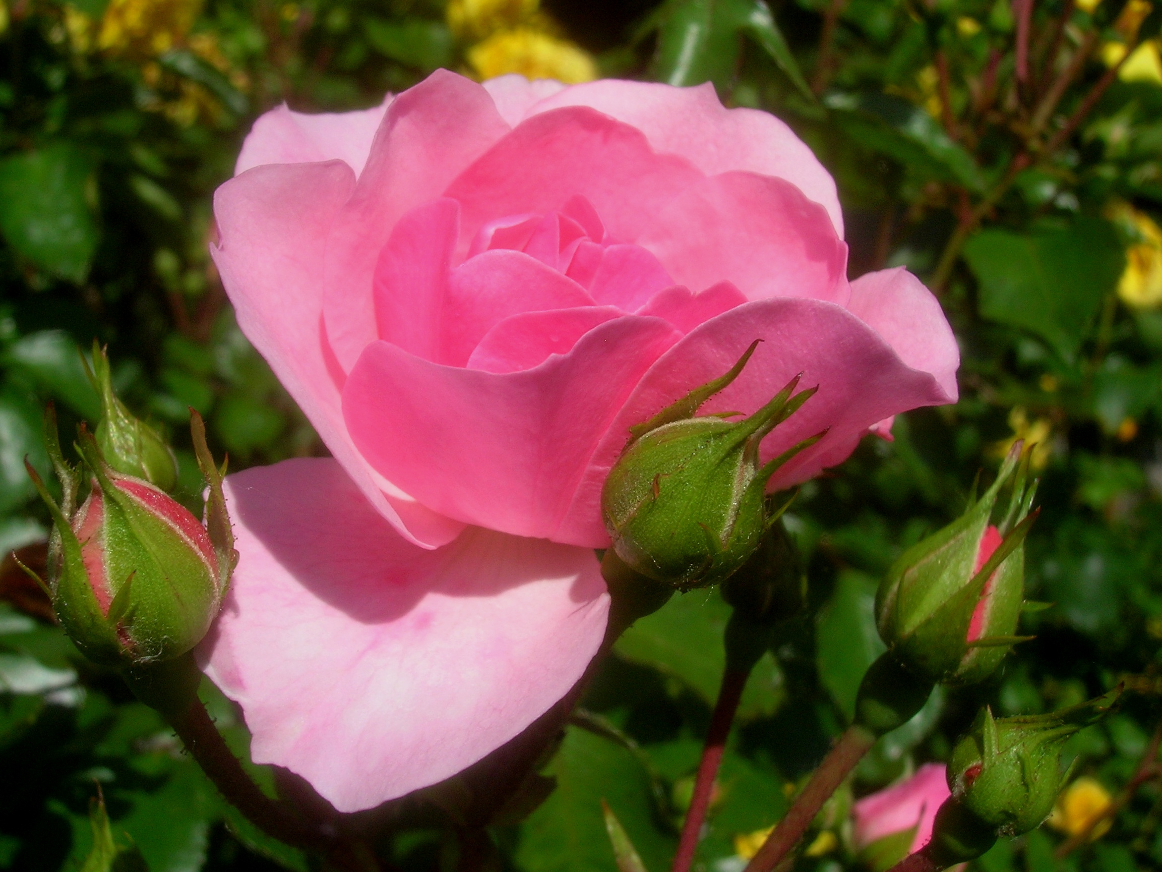 Rosa 'Bonica 82' in the Volksgarten in Vienna.